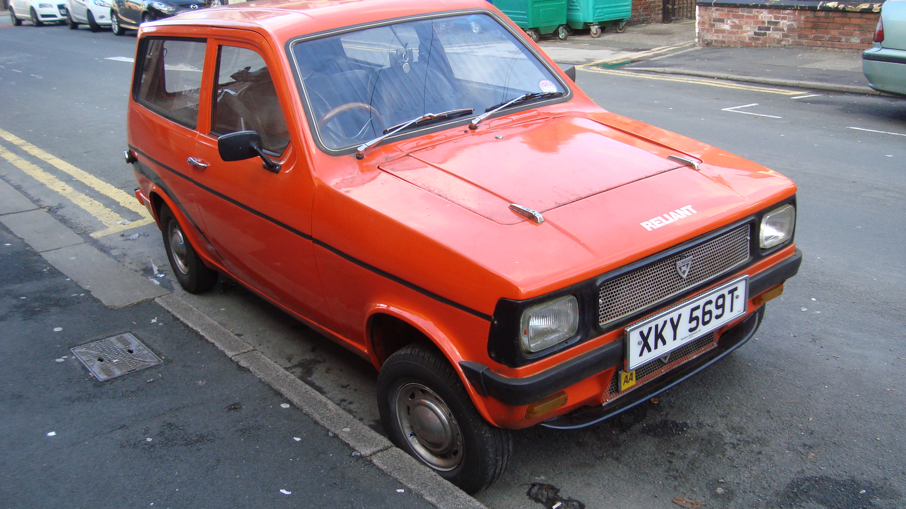 One of 3 that is local to me! and seen on the same street as the Mini, really nice looking little car!